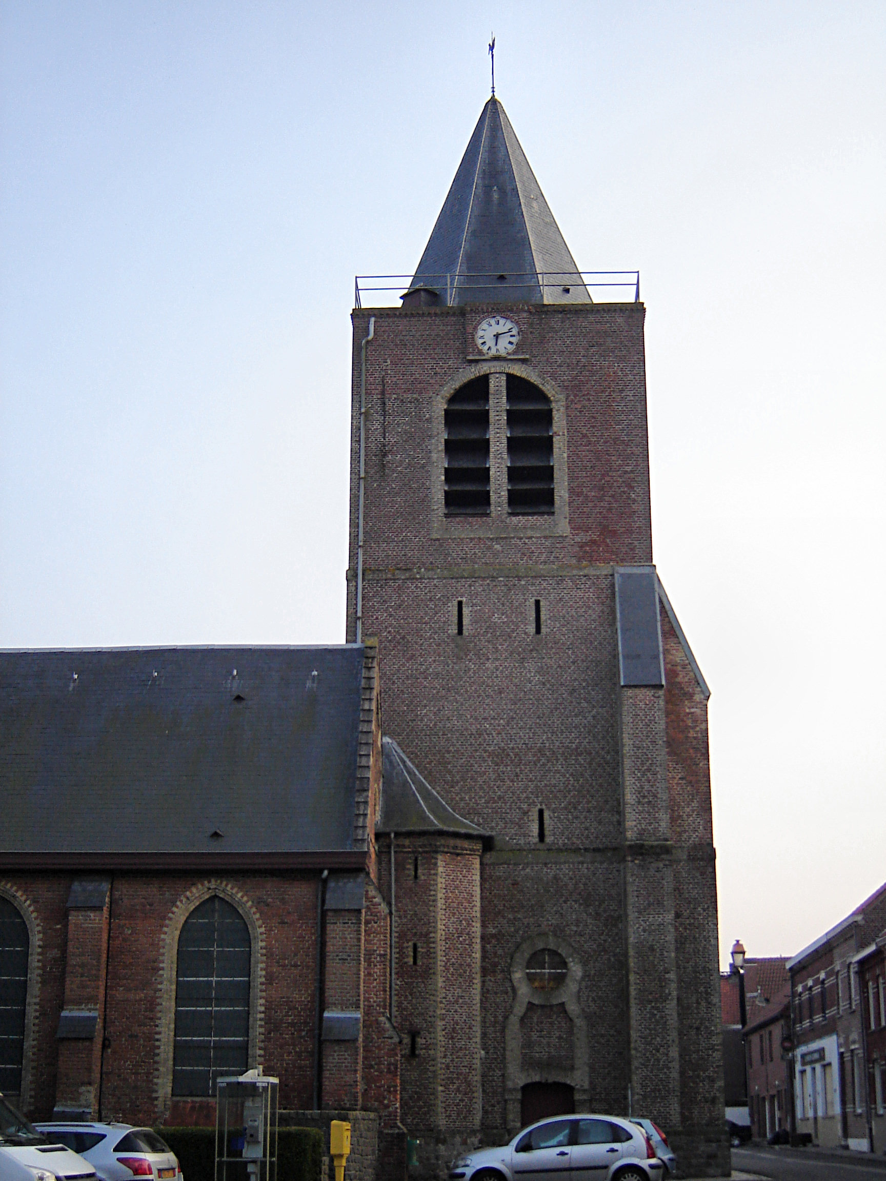 Church of Saint Martin in Boeschepe. Boeschepe, Nord, Nord-Pas-de-Calais, France